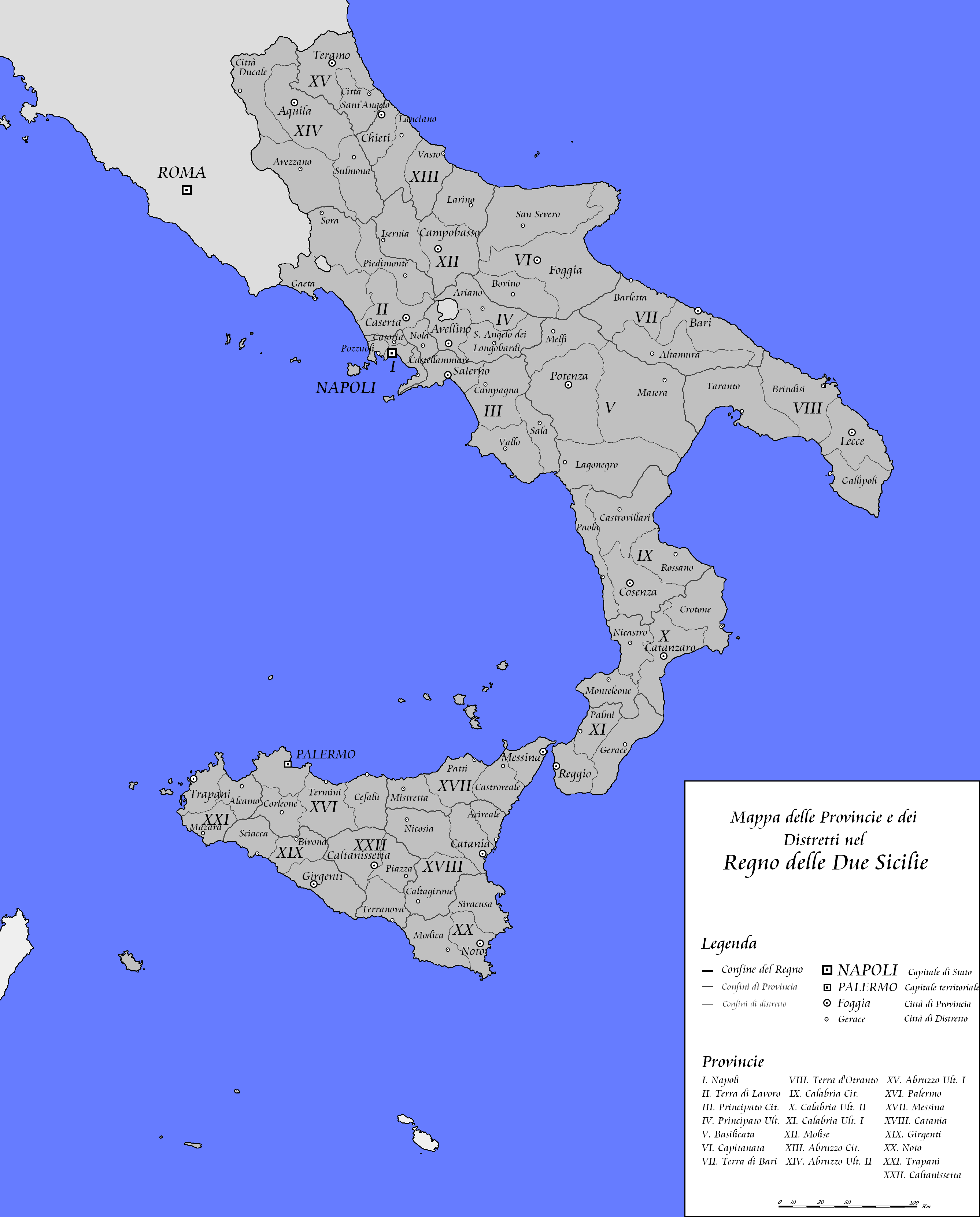 Internal borders of the Kingdom of The Two Sicilies (Provinces and Districts).